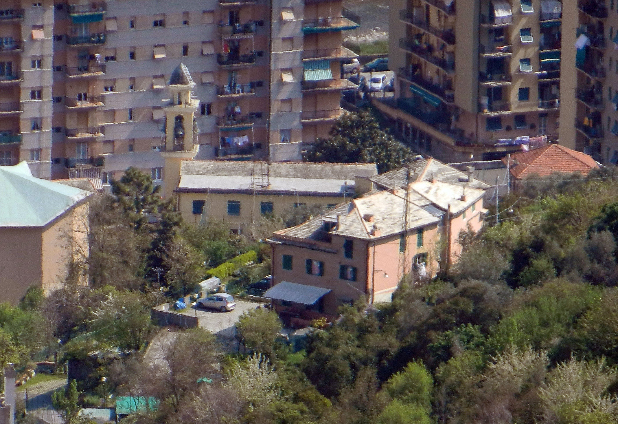 Genoa (Italy), the old church of San Gottardo